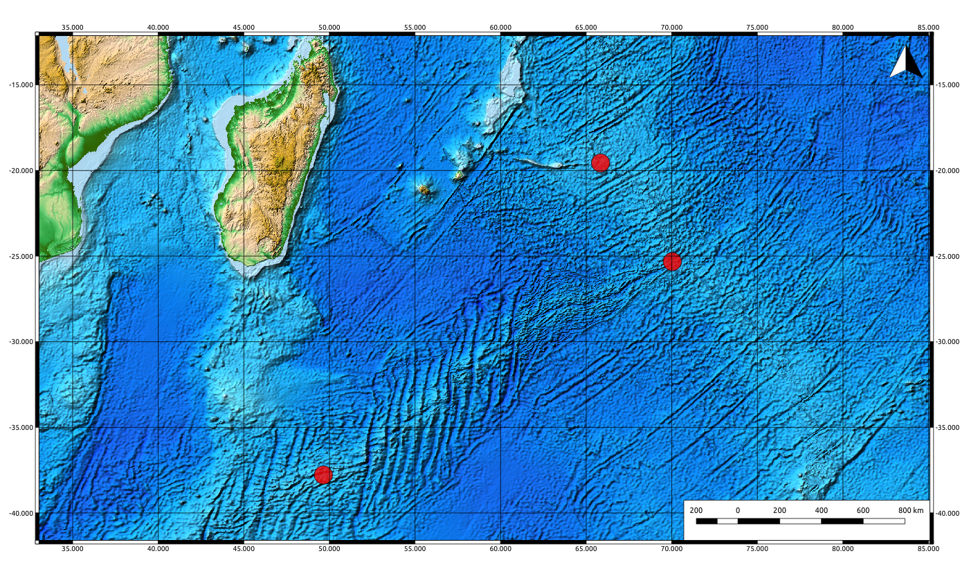 Distribution map of Chrysomallon squamiferum. Coordinates: Kairei -25.3206500,070.0404833 Solitaire -19.5568833,065.8481333 Longqi -37.7837833,049.6493833. Layer: ETOPO1 Global Relief Model.